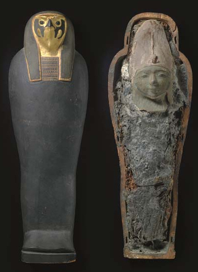 Egyptian false mummy of Osiris, an effigy elaborated during the month of Choiak (october-november)